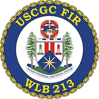 Crest